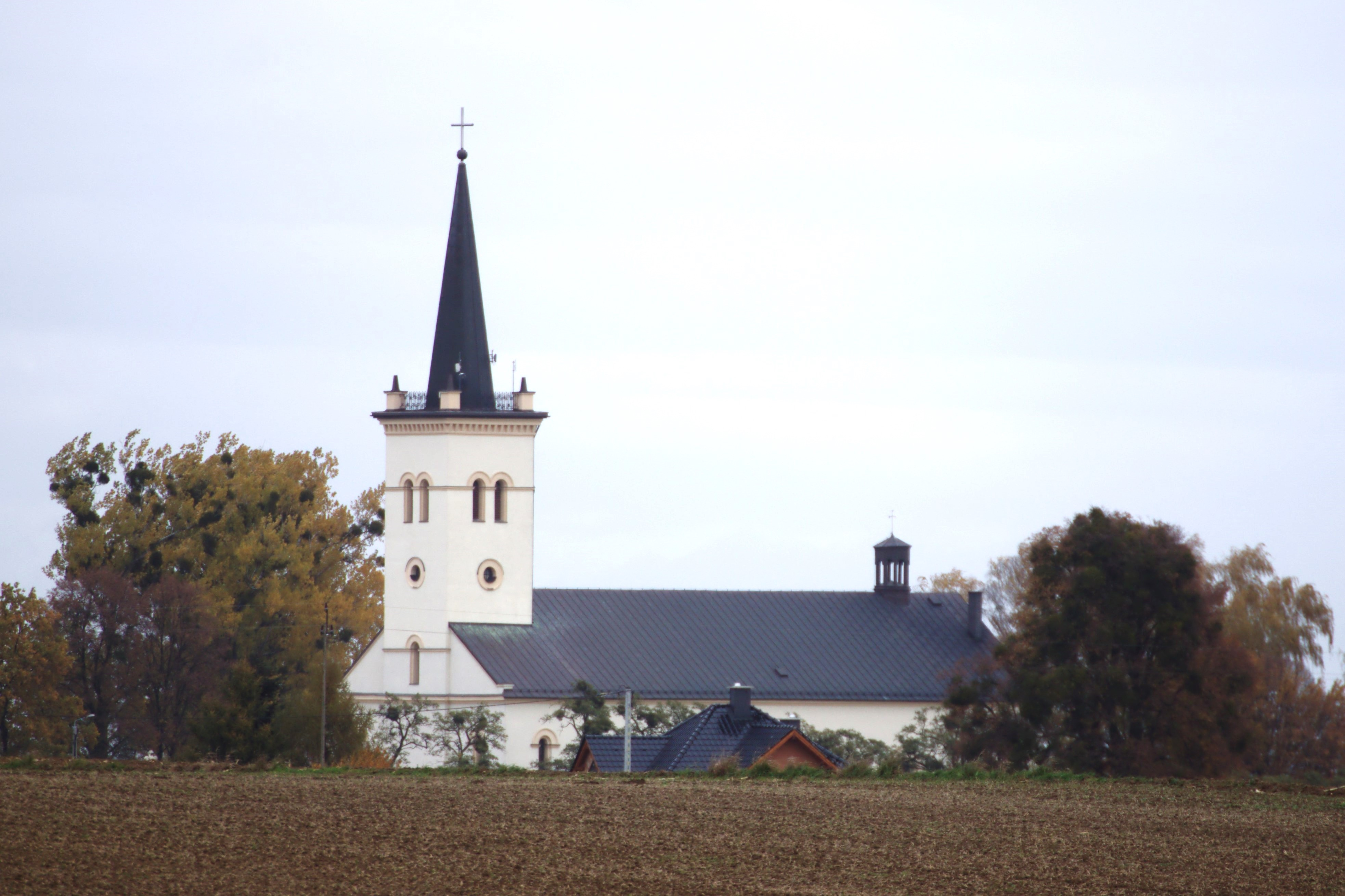 View of the church in Sławików, Poland